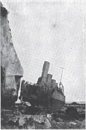 HMS Nubian beached after being damaged by German torpedo boats.